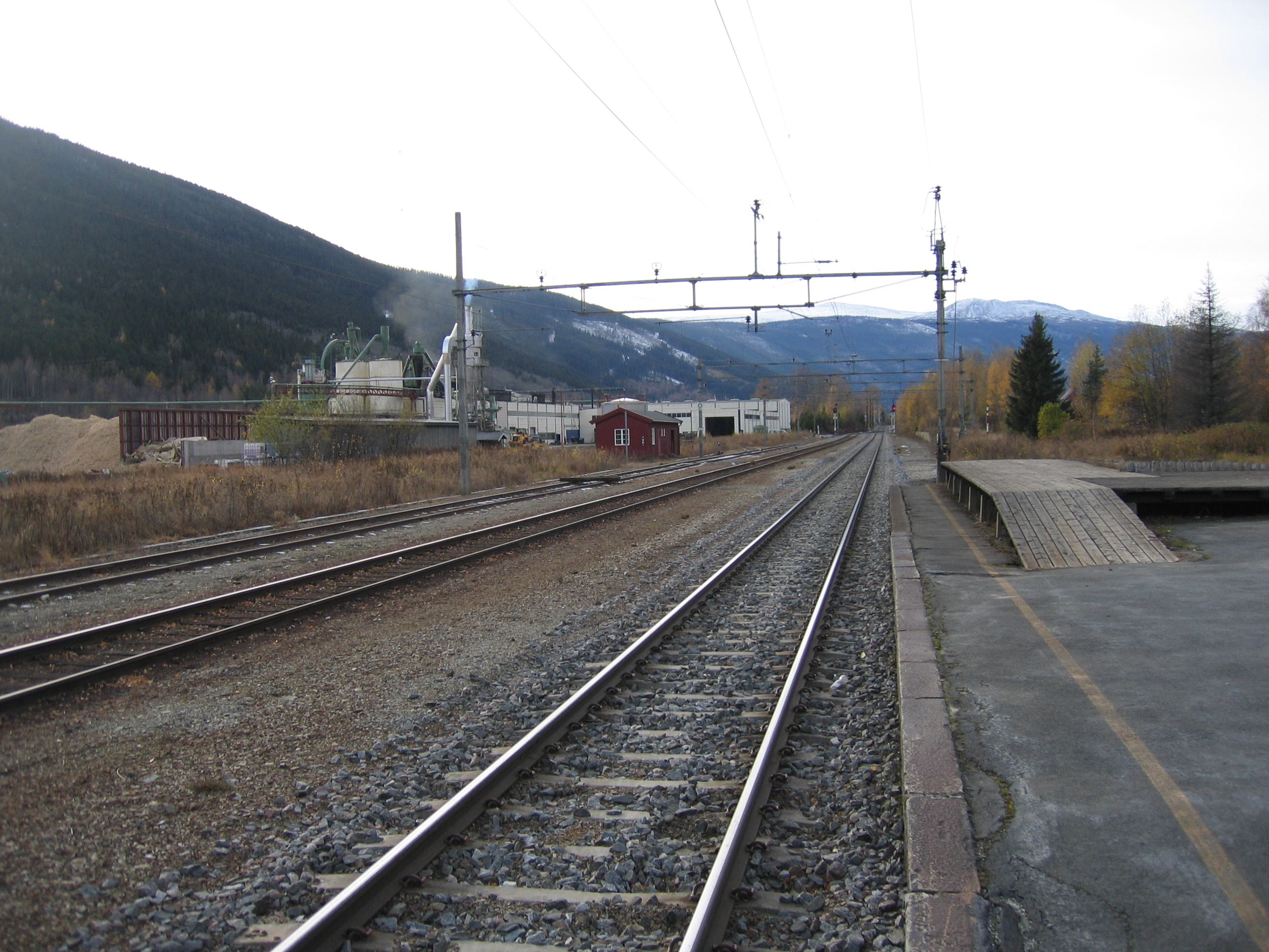 Dovrebanen seen northbound from Kvam station in Kvam, Norway.